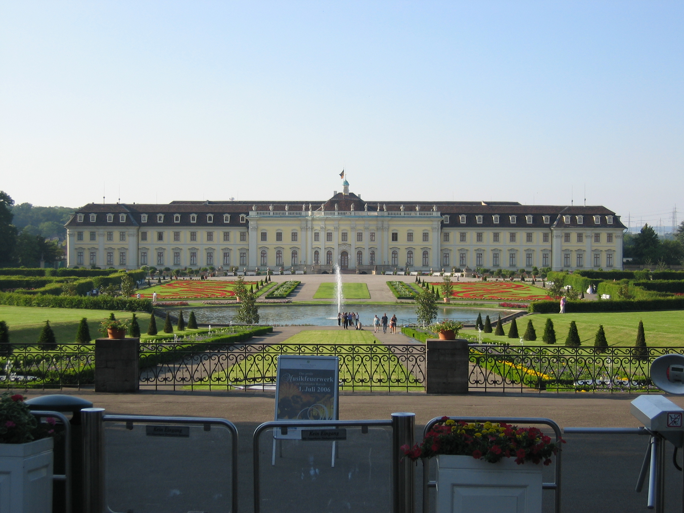 Schloss Ludwigsburg (palace), with the Baroque gardens of Schloss Ludwigsburg — in Ludwigsburg, Germany.